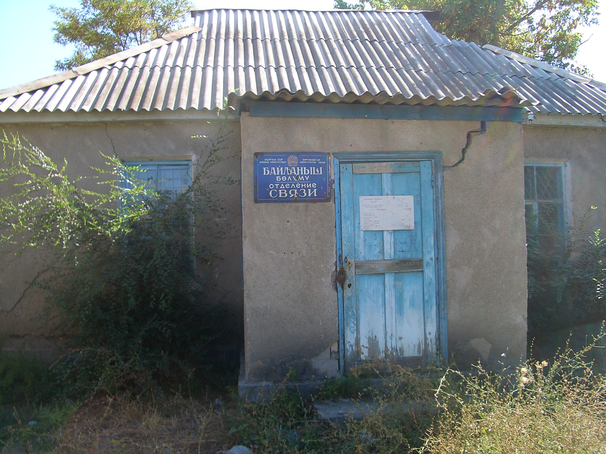 The post office in Milyanfan village, Kyrgyzstan.